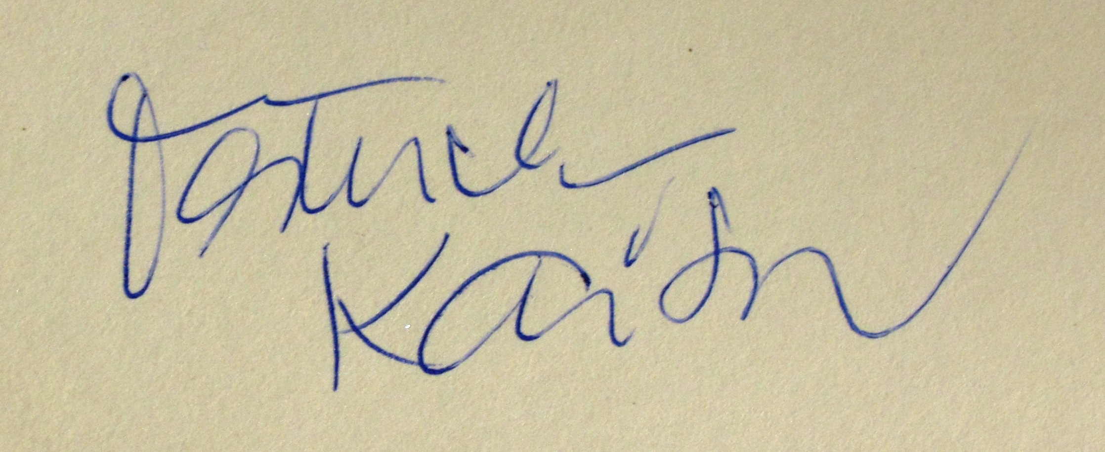 Signature of Oldřich Kaiser, Czech actor (1984)